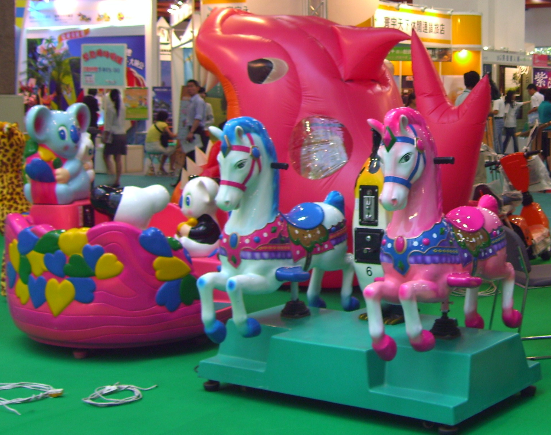 Leisure Taiwan 2007: Kiddie rides at Digital Entertainment Pavilion.